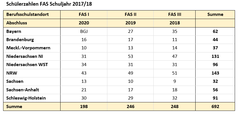 FAS-Schülerzahlen Stand 2017